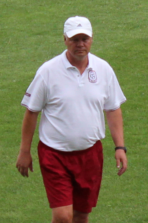 Viacheslav Mazarati